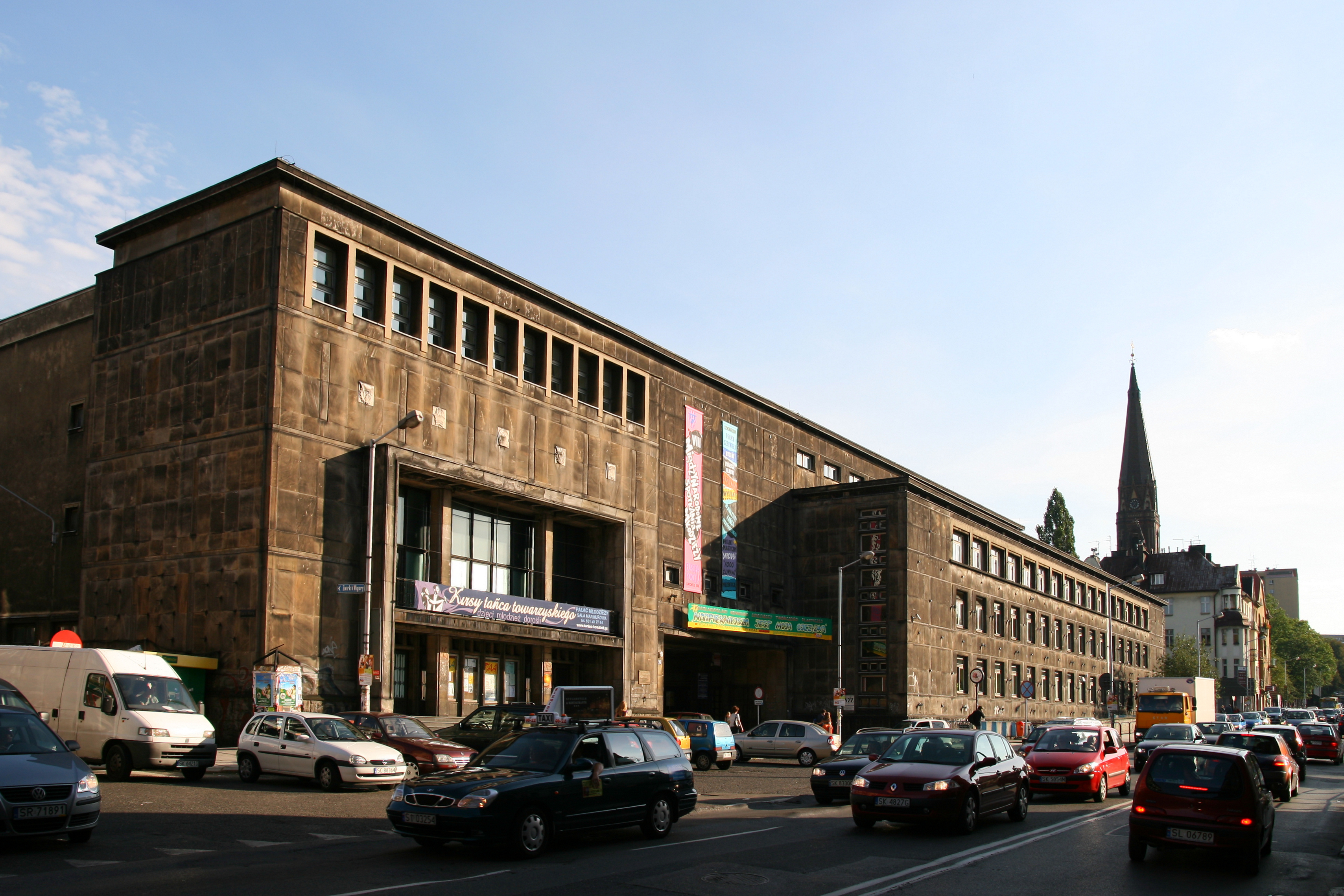 Youth Palace in Katowice (Poland).